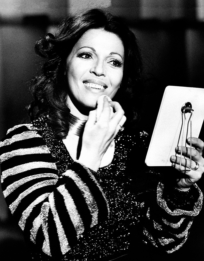 Italian actress Valeria Fabrizi presenting the musical show Non tocchiamo quel tasto. Milan, 1974